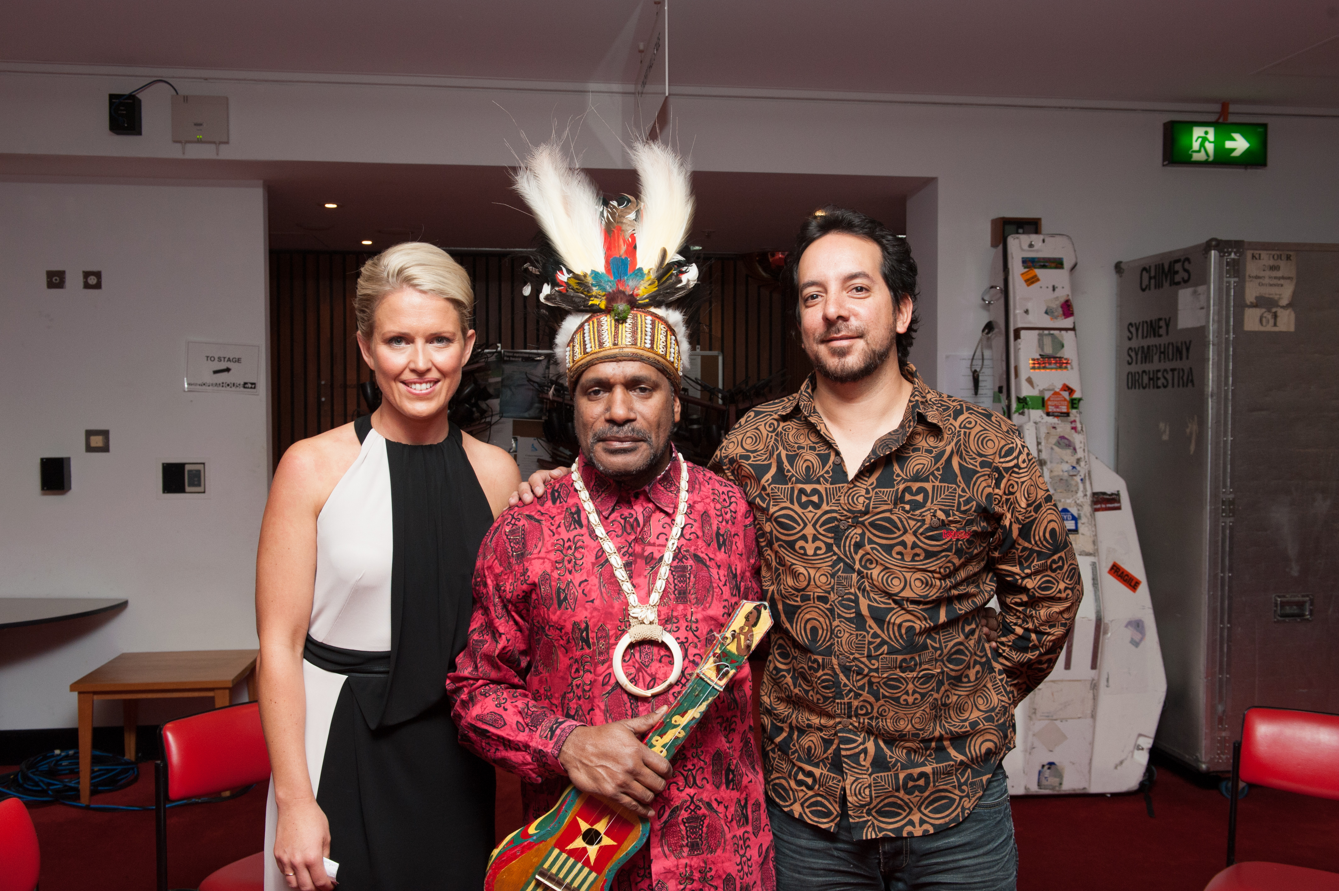 Photo: Fe Lumsdaine, Lumsdaine Photography